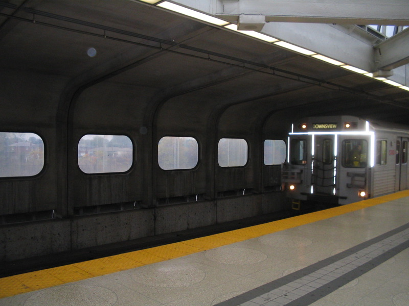 A train at the Toronto Subway station "Yorkdale"